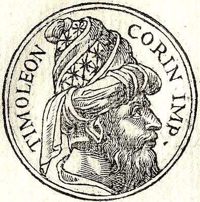 Timoleon was a Greek statesman and general.